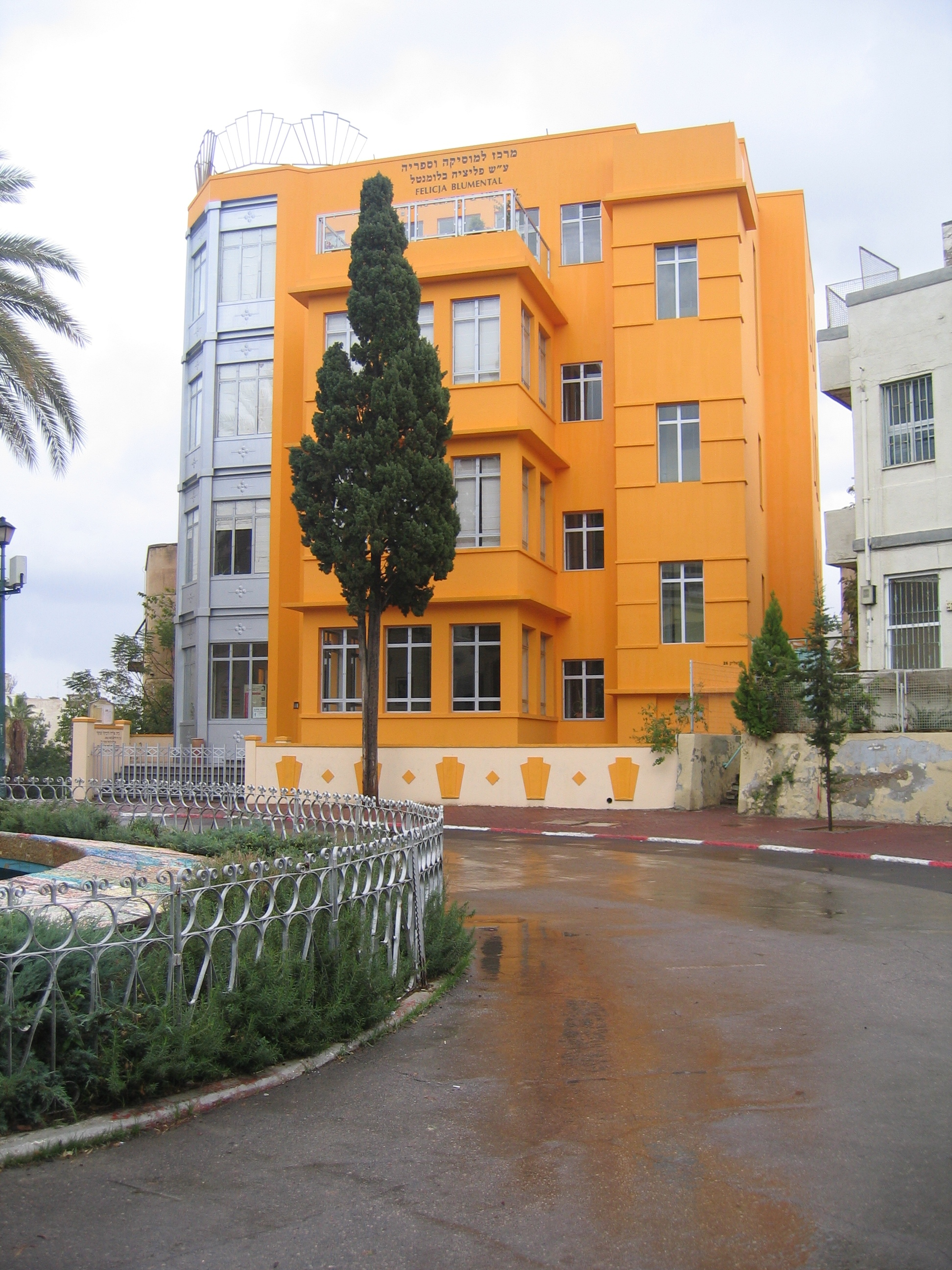 Felicia Blumental Music Center & Library